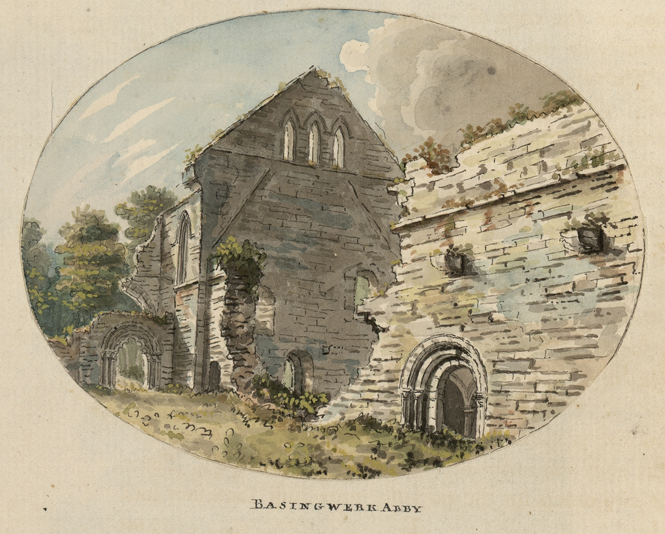 An image from a set of 8 extra-illustrated volumes of A tour in Wales by Thomas Pennant (1726-1798) that chronicle the three journeys he made through Wales between 1773 and 1776. These volumes are unique because they were compiled for Pennant's own library at Downing. This edition was produced in 1781. The volumes include a number of original drawings by Moses Griffiths, Ingleby and other well known artists of the period. Thomas Pennant (1726-1798)